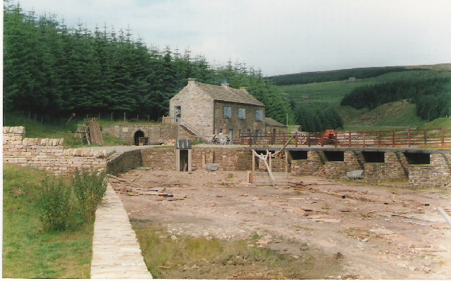 Killhope Lead Mining Museum, now developed into a major museum site